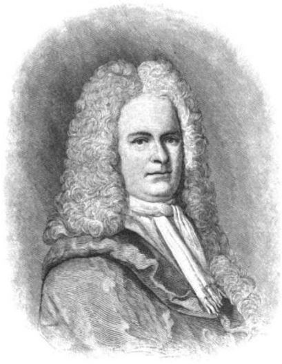 Caleb Heathcote, reproduced from the engraving from the original painting in possession of the Rt. Rev. W. H. De Lancey, Bishop of Western New York.